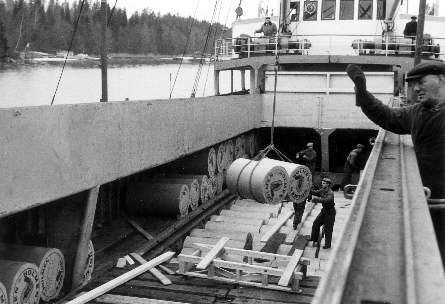 Longshoremen in loading rolls of paper in the port of Hallstavik, Sweden - 1962